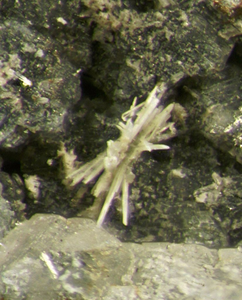 Kukharenkoite-(Ce) Locality: Demix-Varennes quarry, Saint-Amable sill, Varennes & St-Amable, Lajemmerais RCM, Montérégie, Québec, Canada Description: Individual blades to ~ ½ mm; top to bottom ~⅞ mm. Thanks to Bob Rothenberg. MOB coll. This is an example of kukharenkoite from the main sill.